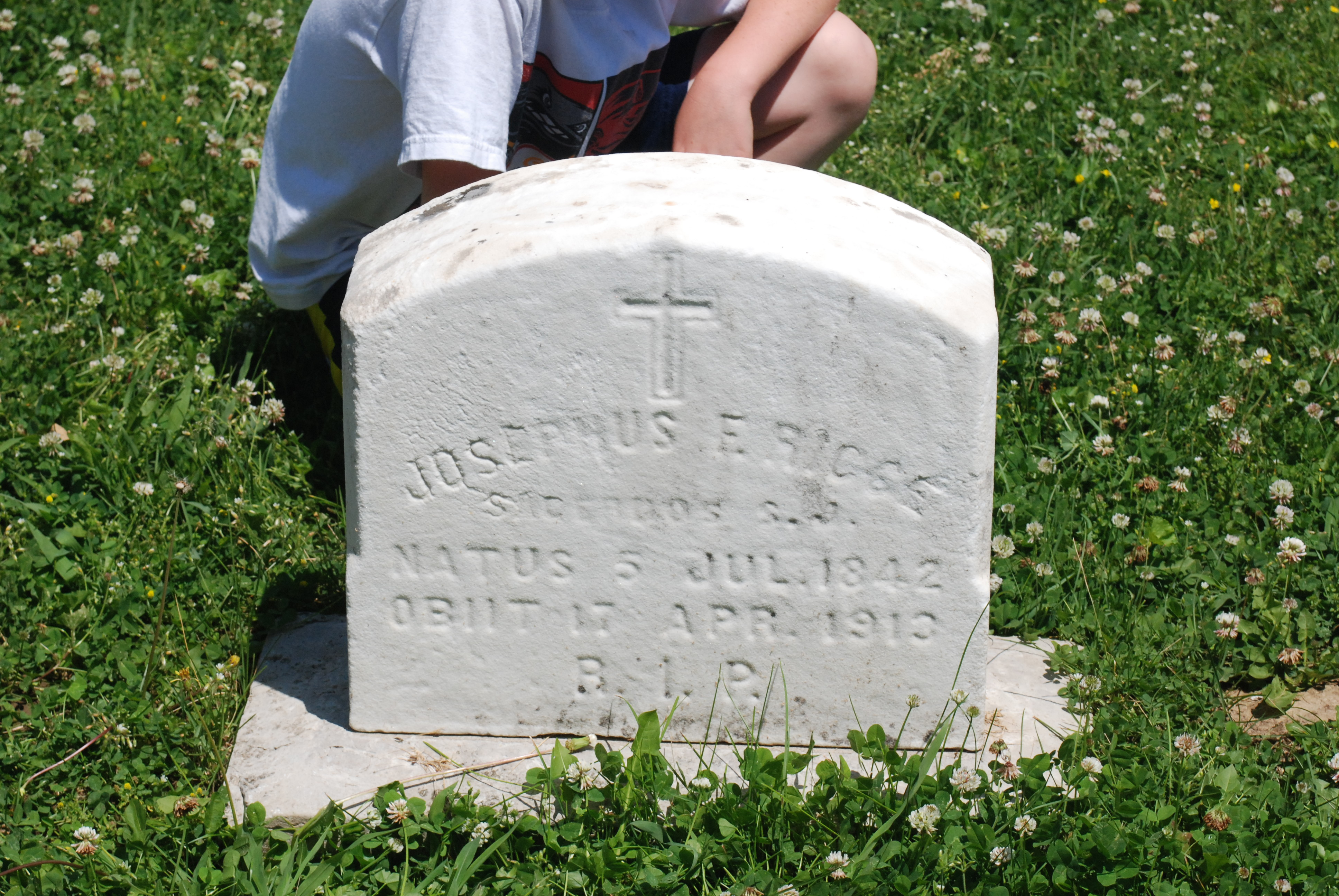 Tombstone of Fr. Joseph Rigge Jesuit Priest died in Cincinnati, OH in 1913. This stone is in St. Joseph New Cemetery in Cincinnati in the Jesuit plot.